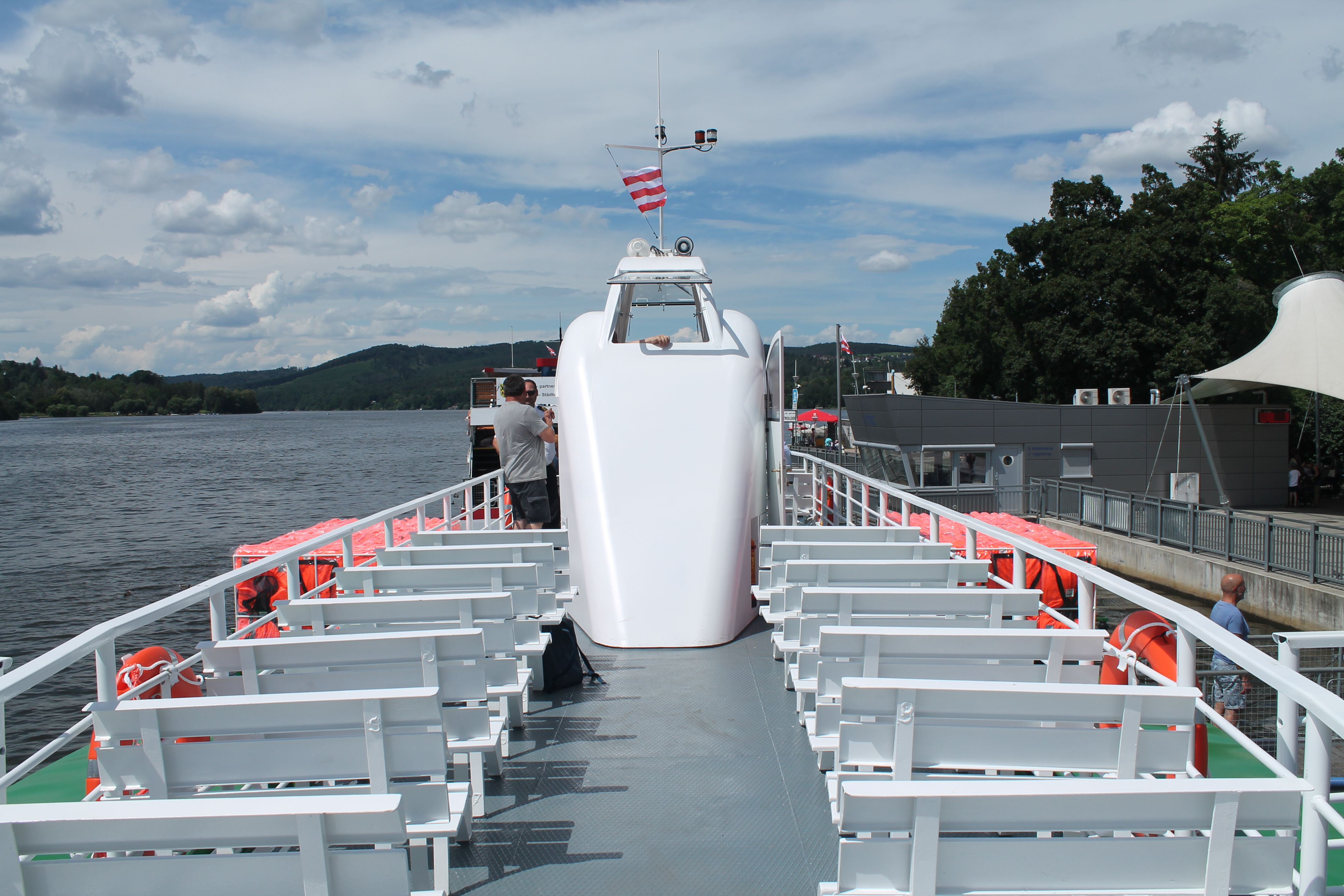 Morava ship, Brno, Czech Republic